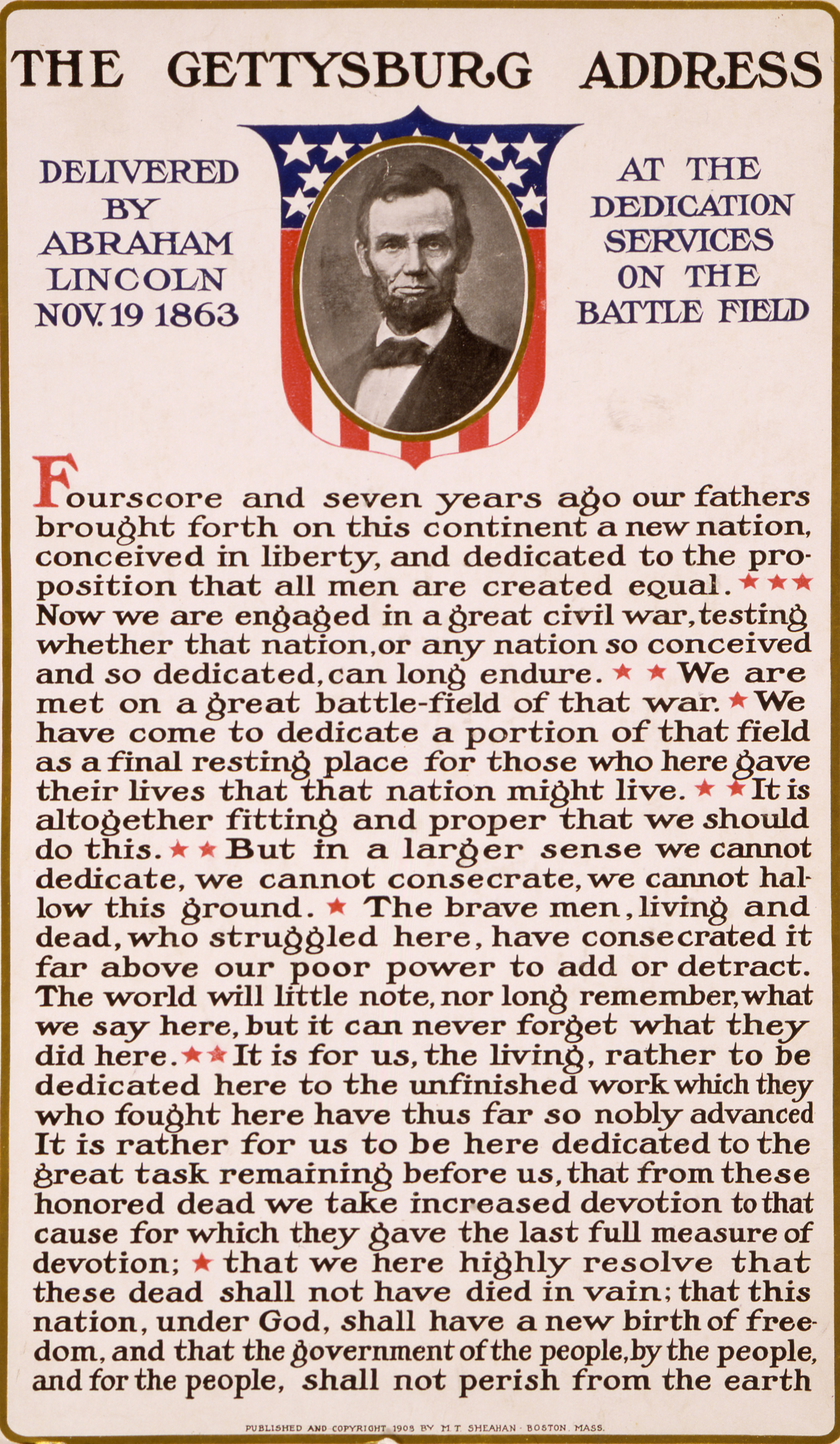 Early 20th century poster showing a bust portrait of Abraham Lincoln above text of the Gettysburg address